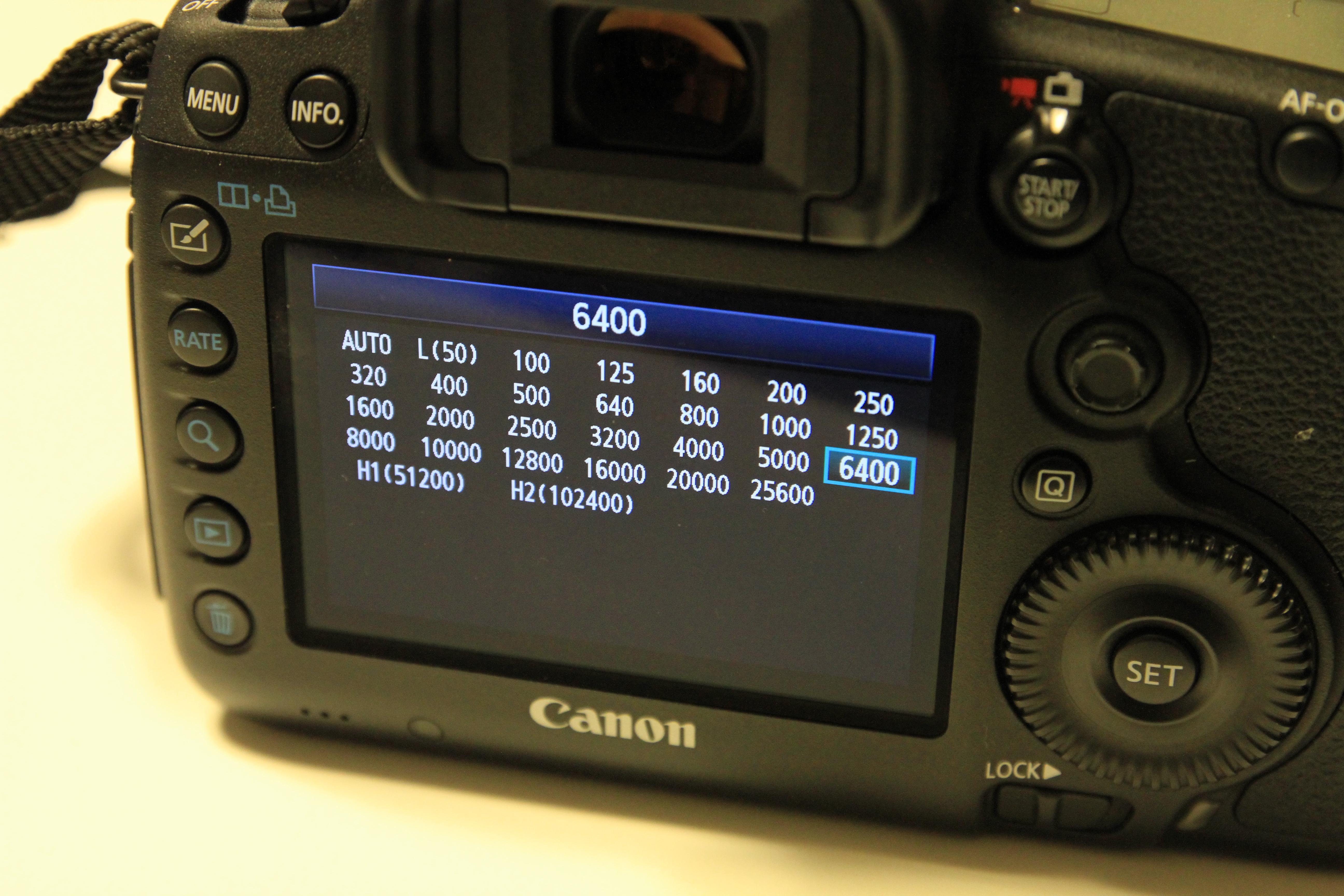 Canon EOS 5D Mark III, ISO selecting menu